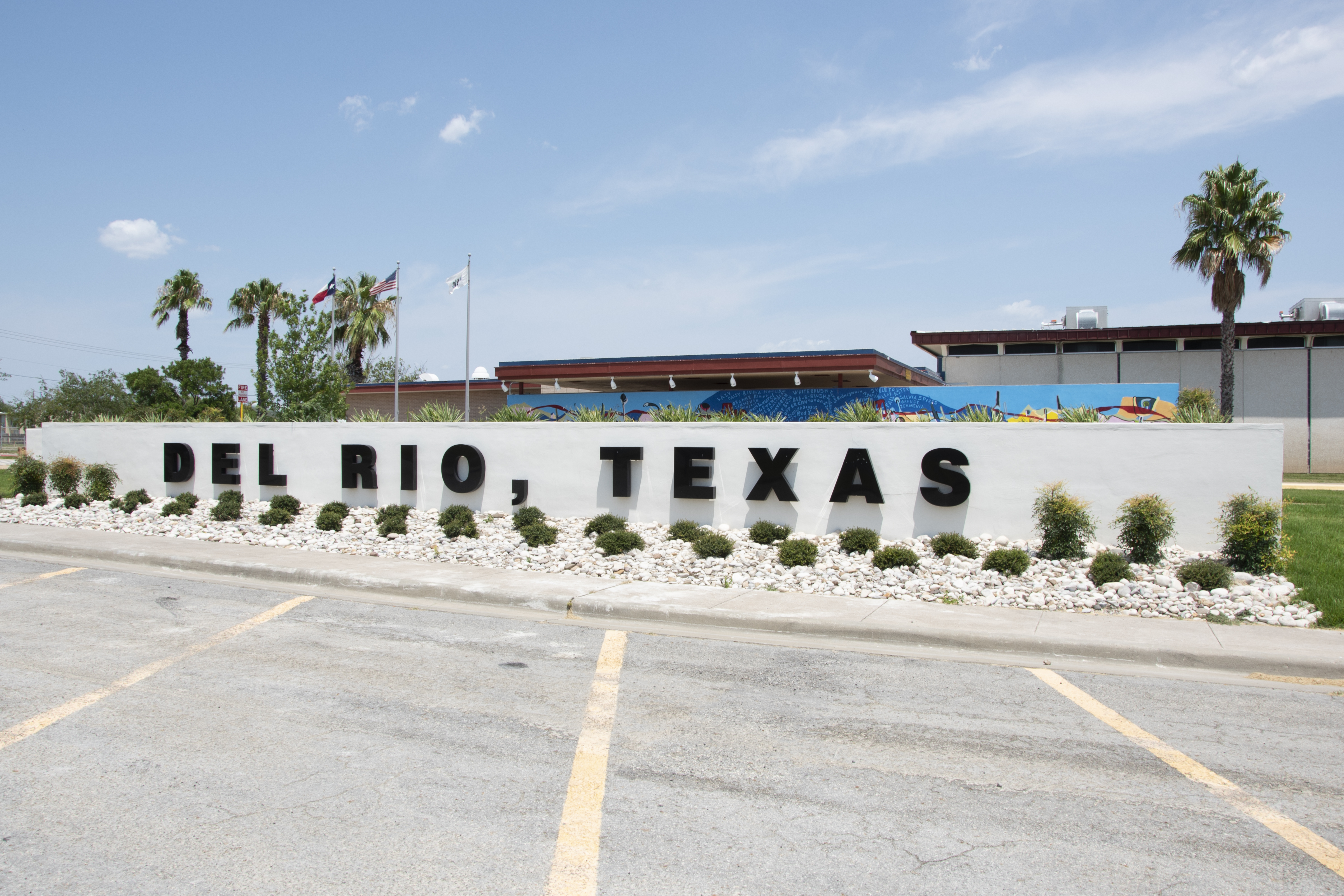 Civic Center